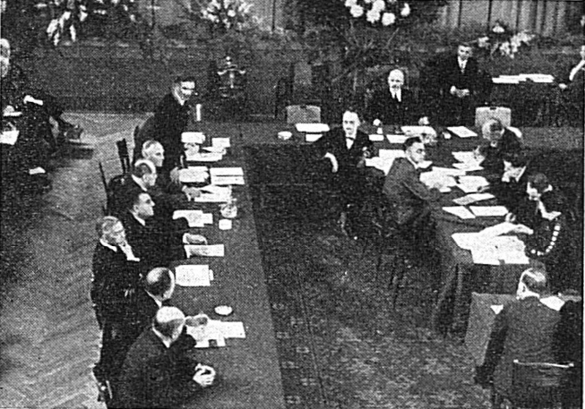 Nyon Conference, 10-14 September 1937